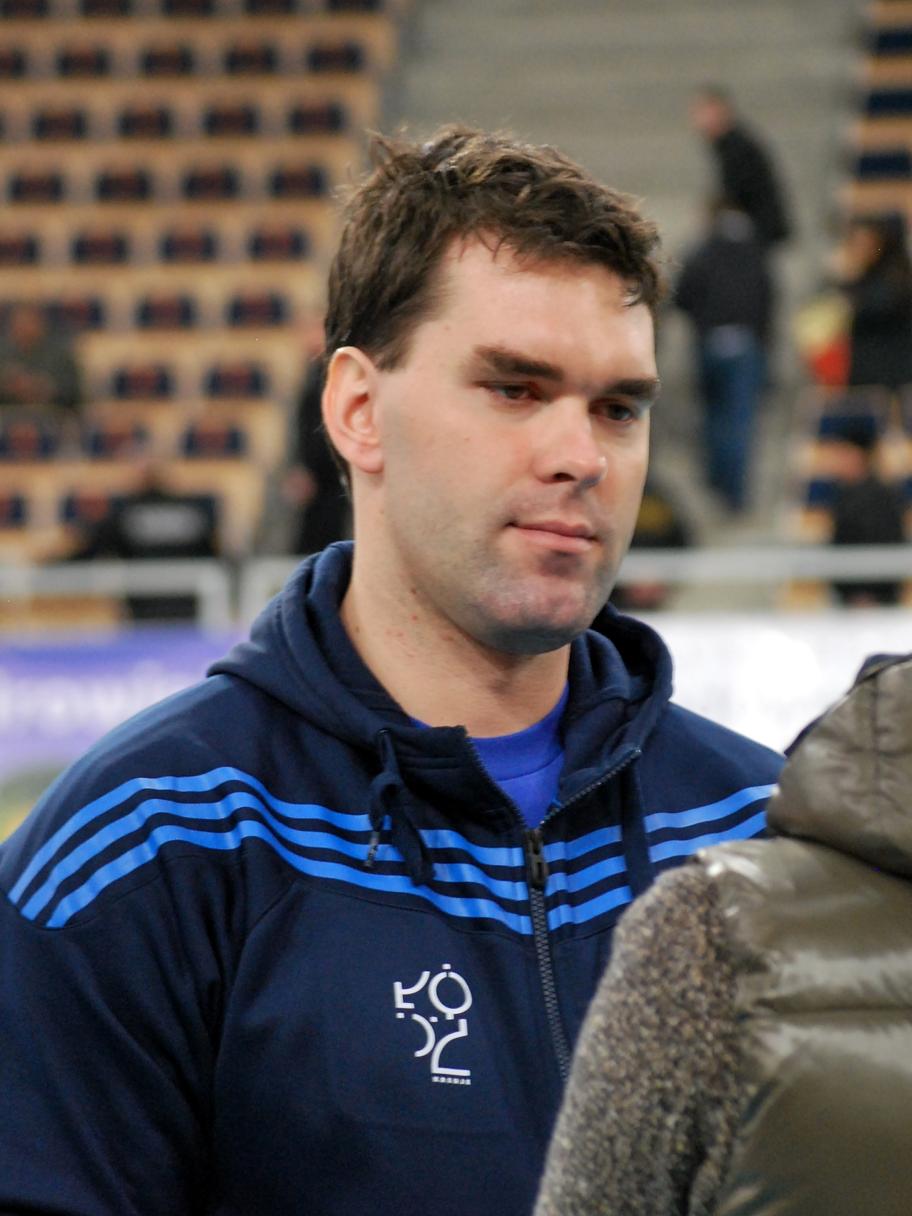 Maciej Kosmol, polish volleyball coach